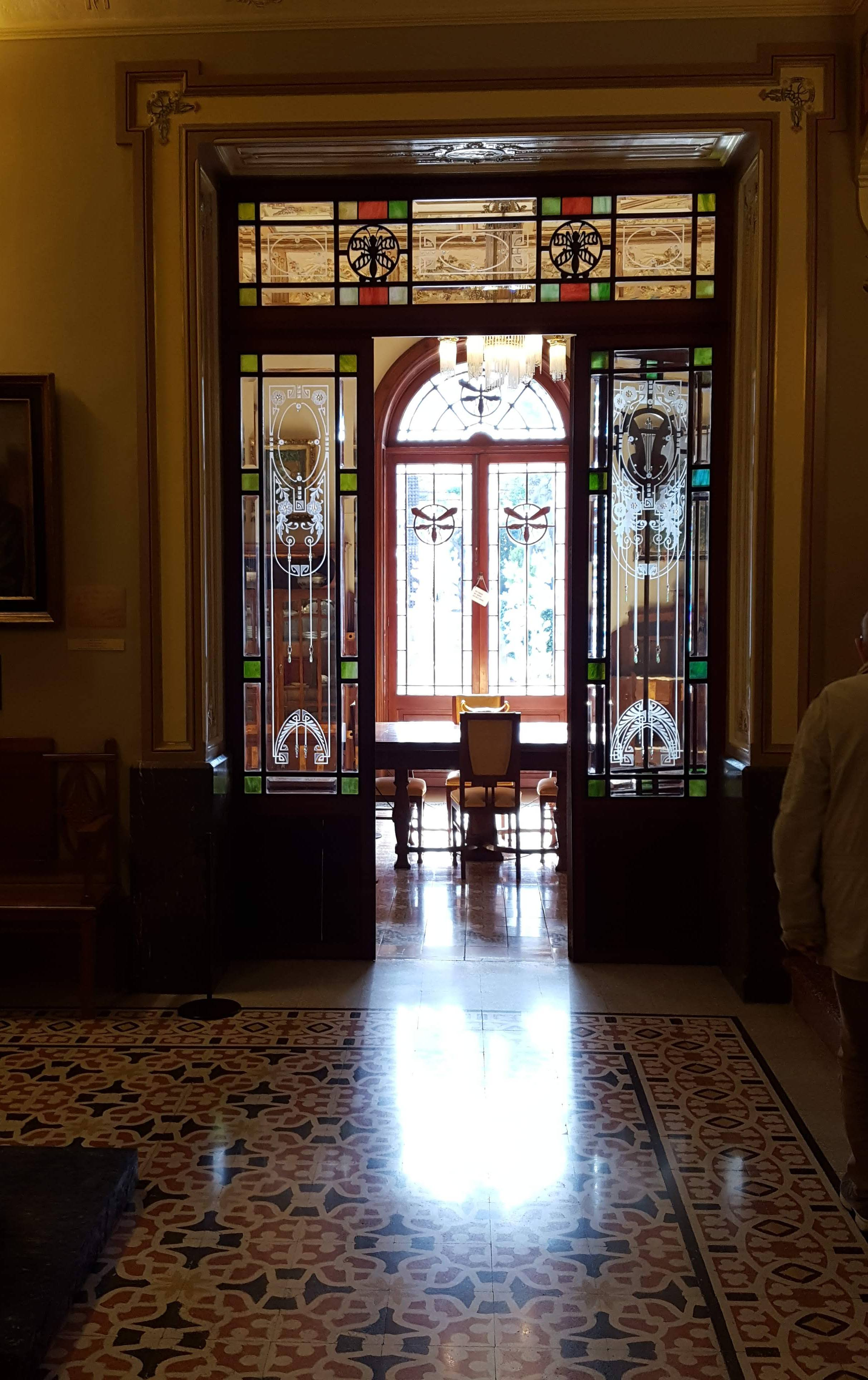 Entrance Hall, Can Prunera (Sóller, Mallorca)